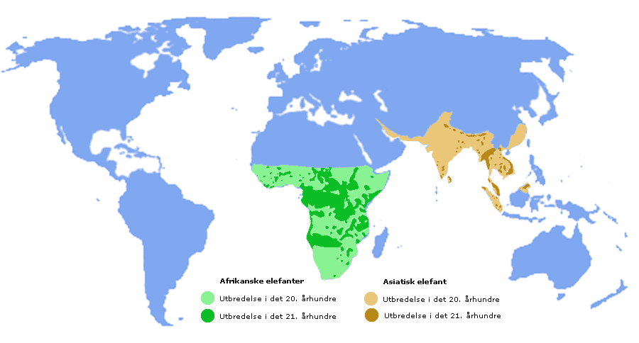 Distribution of elephants during the 20th and the 21st century